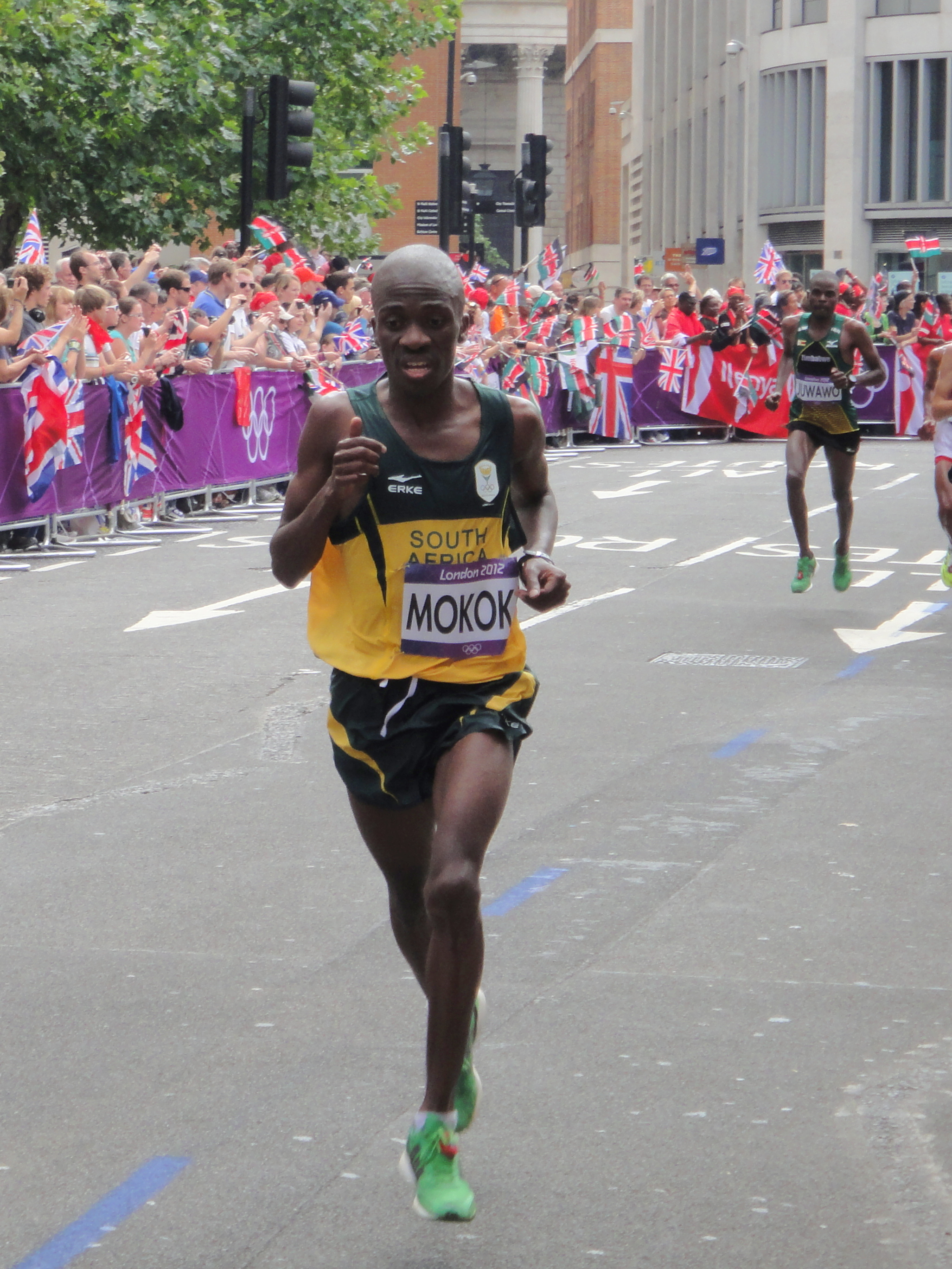 Stephen Mokoka (South Africa) - London 2012 Men's Marathon